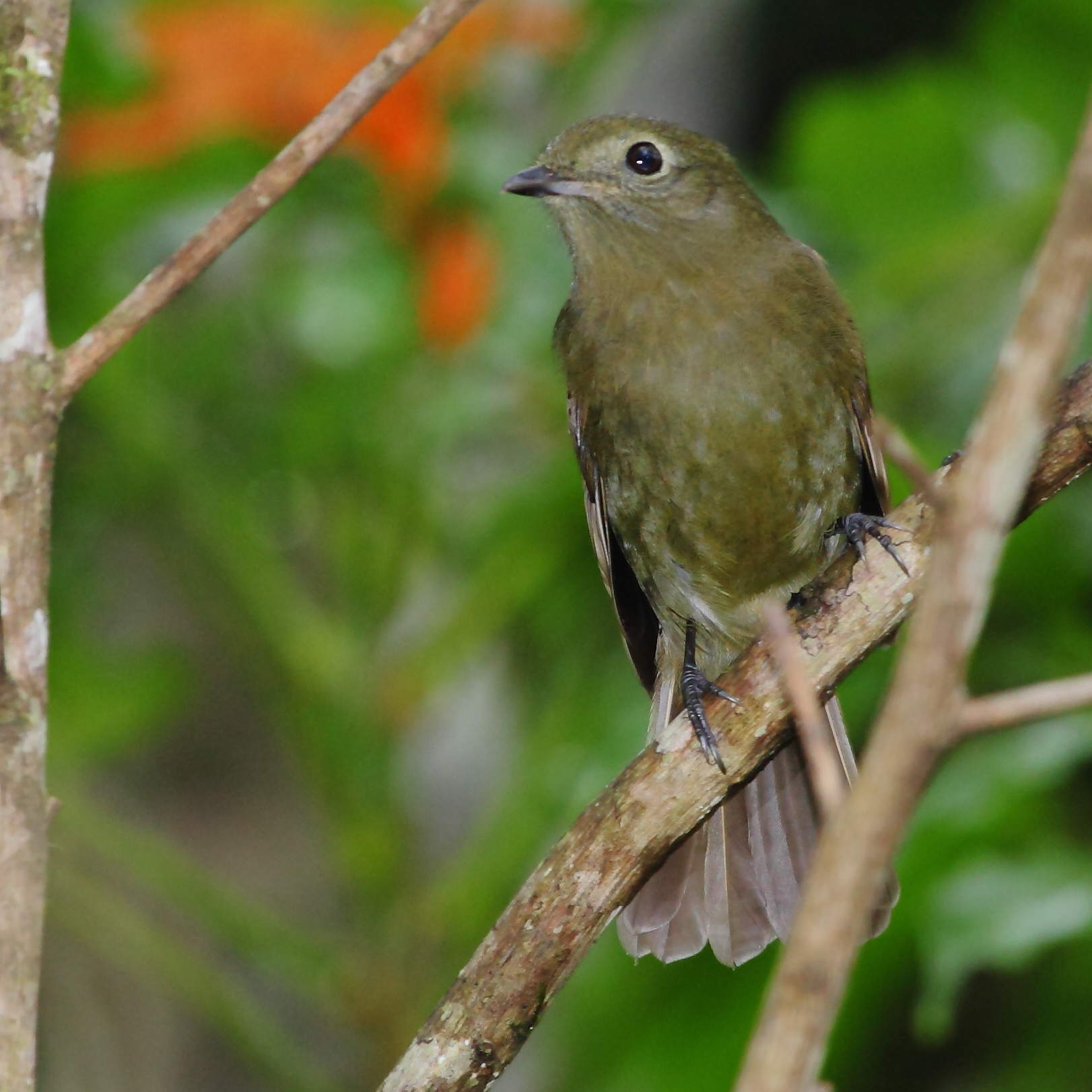 Greenish Schiffornis at São Luiz do Paraitinga - SP - Brazil